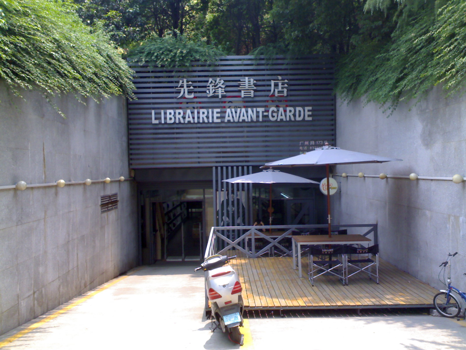 librairie avant-garde in Nanjing